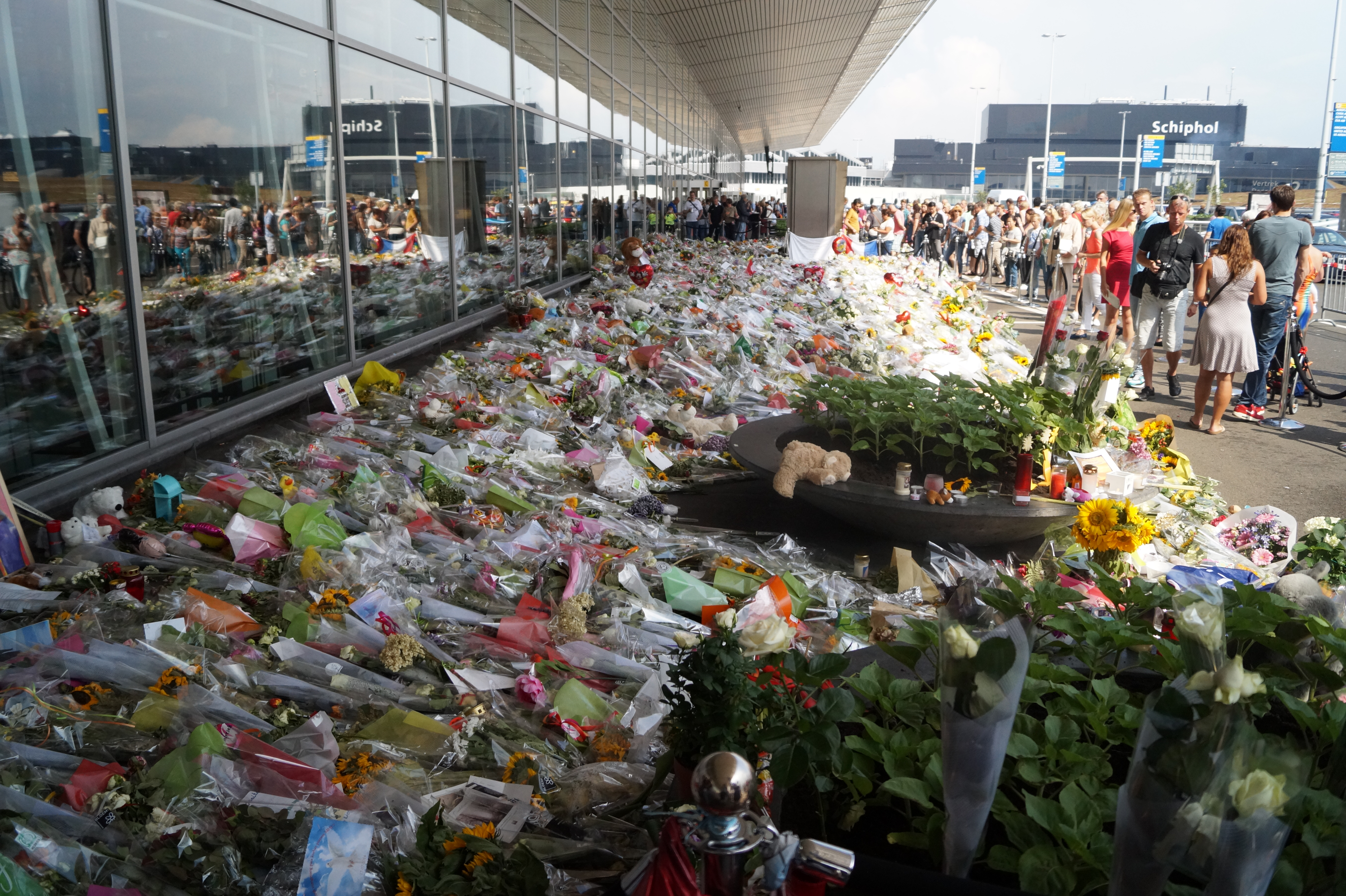 The sea of flowers at the airport for the victims of the disaster of Flight MH17.